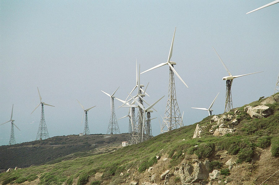 Wind energy facilities near Tarifa (Andalucia, Spain), utilising the strong winds at the Strait of Gibraltar